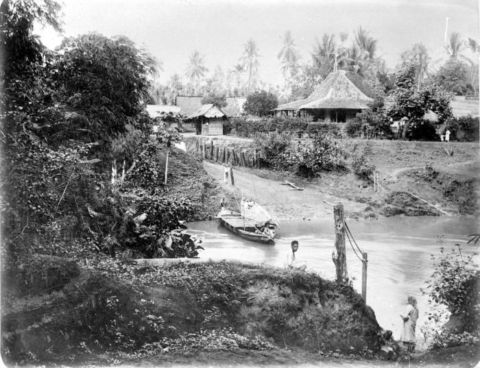 Ferry across a river near the village Melaju, south of Meester Cornelis, Weltevreden, Batavia.